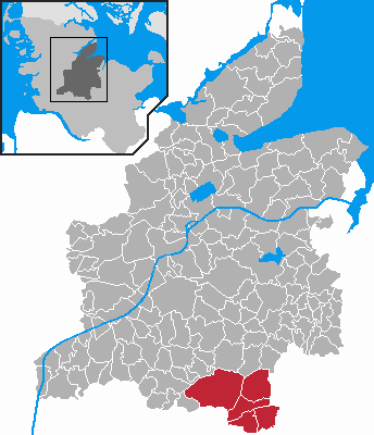 This map shows the area of the Amt (county) Aukrug in the Kreis (district) Rendsburg-Eckernförde, Schleswig-Holstein, Germany.